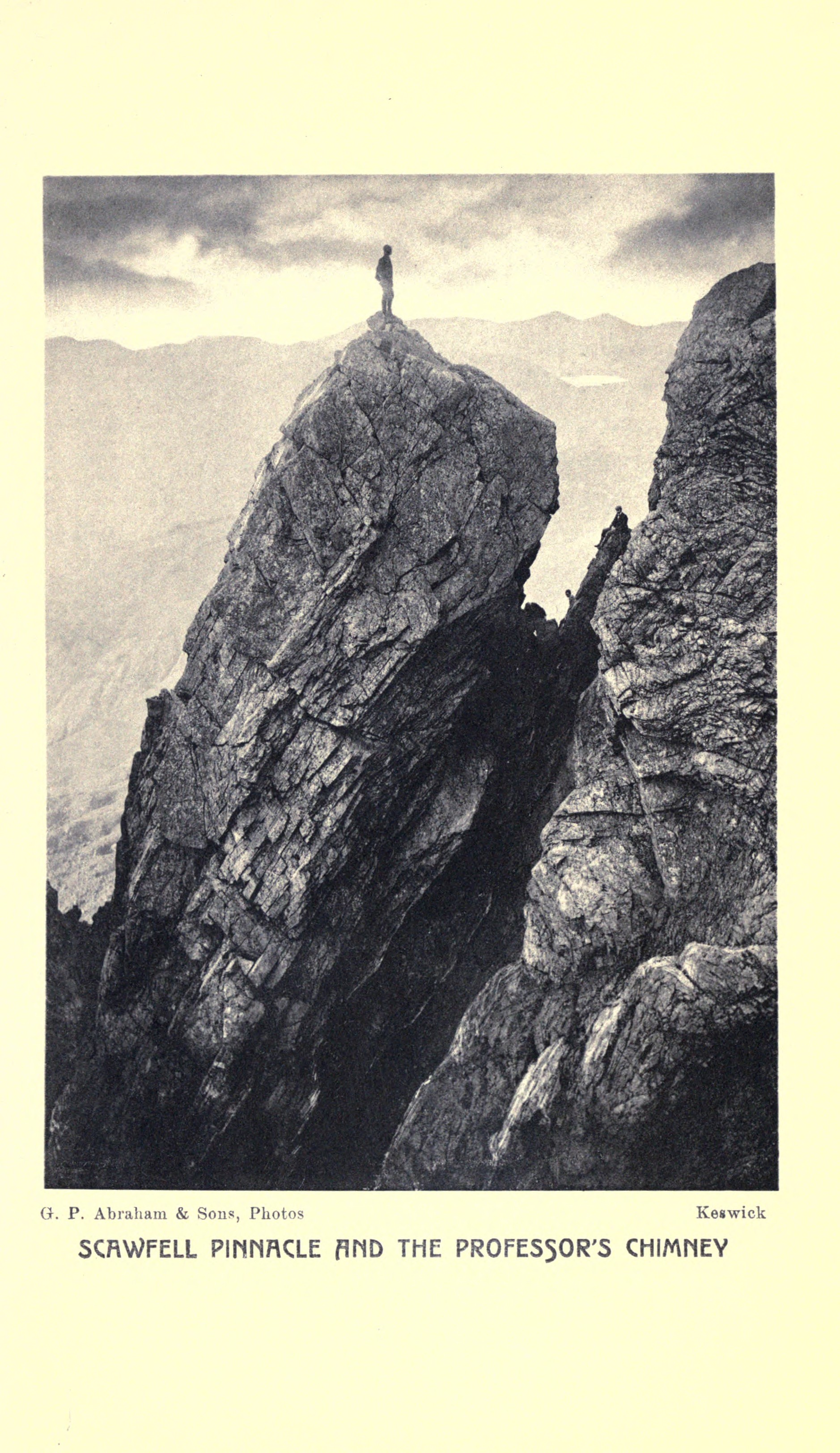 Mountaineers climb the Sca Fell Pinnacle & Professors Chimney, Sca Fell, English Lake District